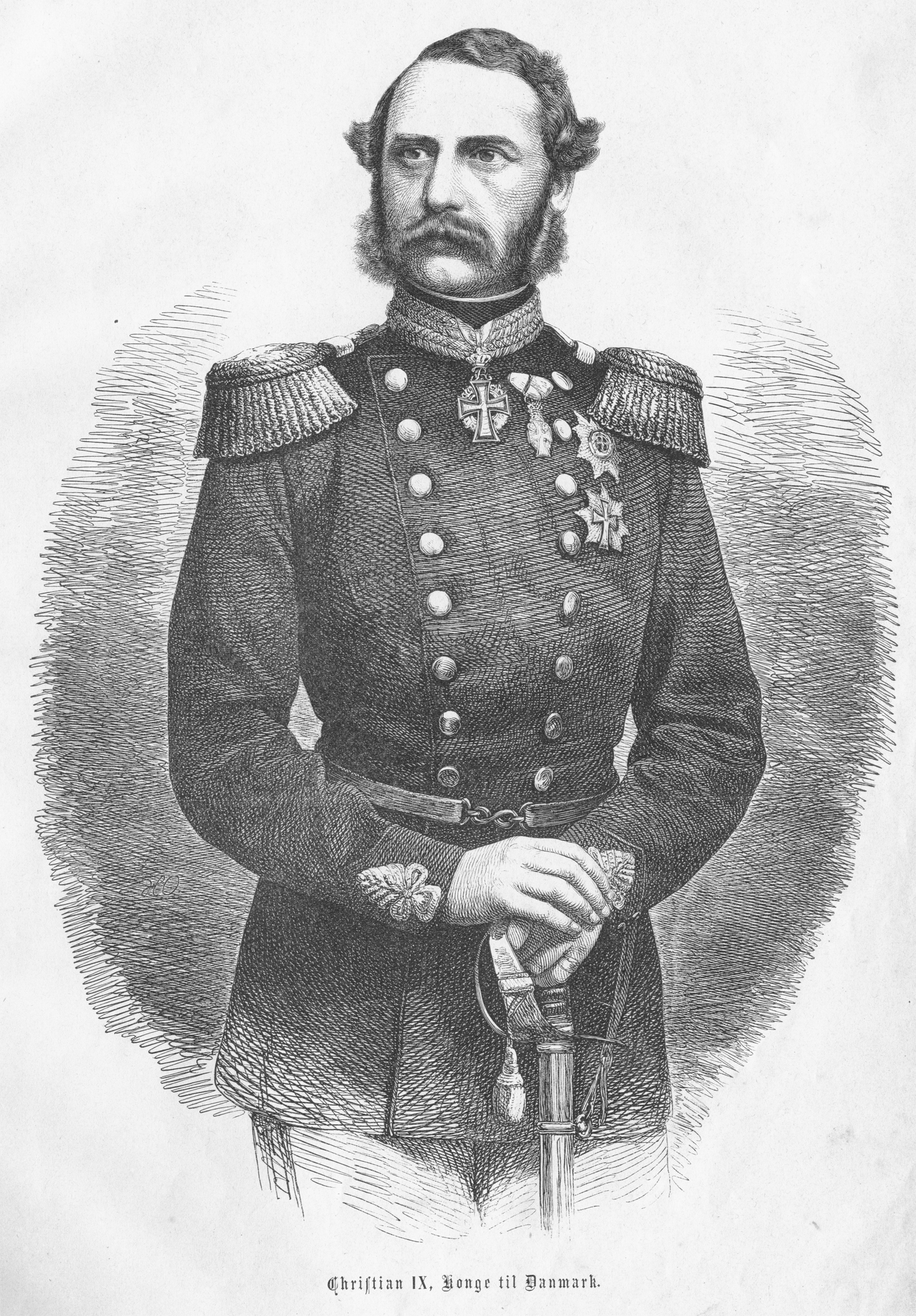 King Christian IX of Denmark. Contemporary illustration from the 1864 German-Danish War.